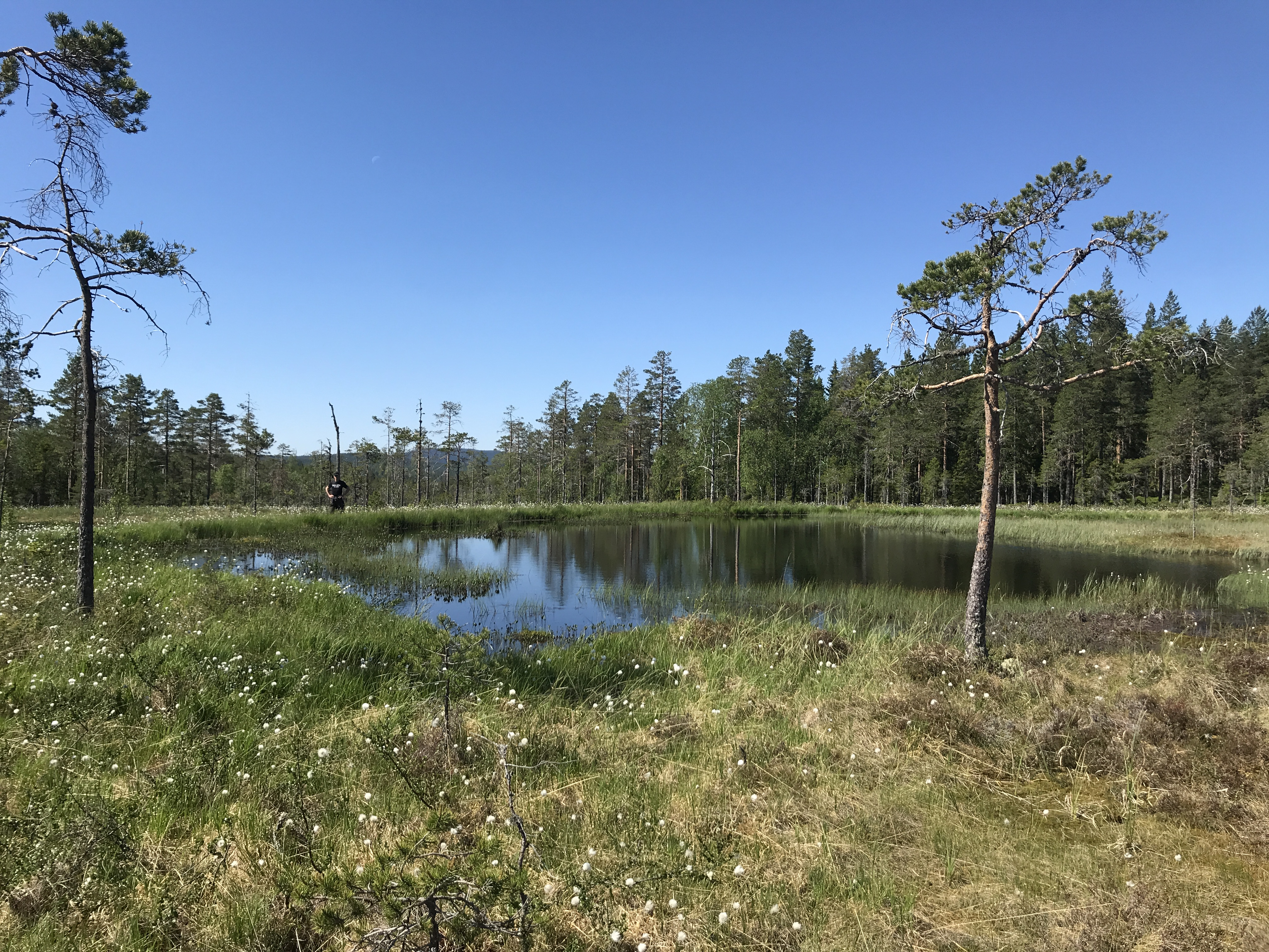 River Norsälven source.